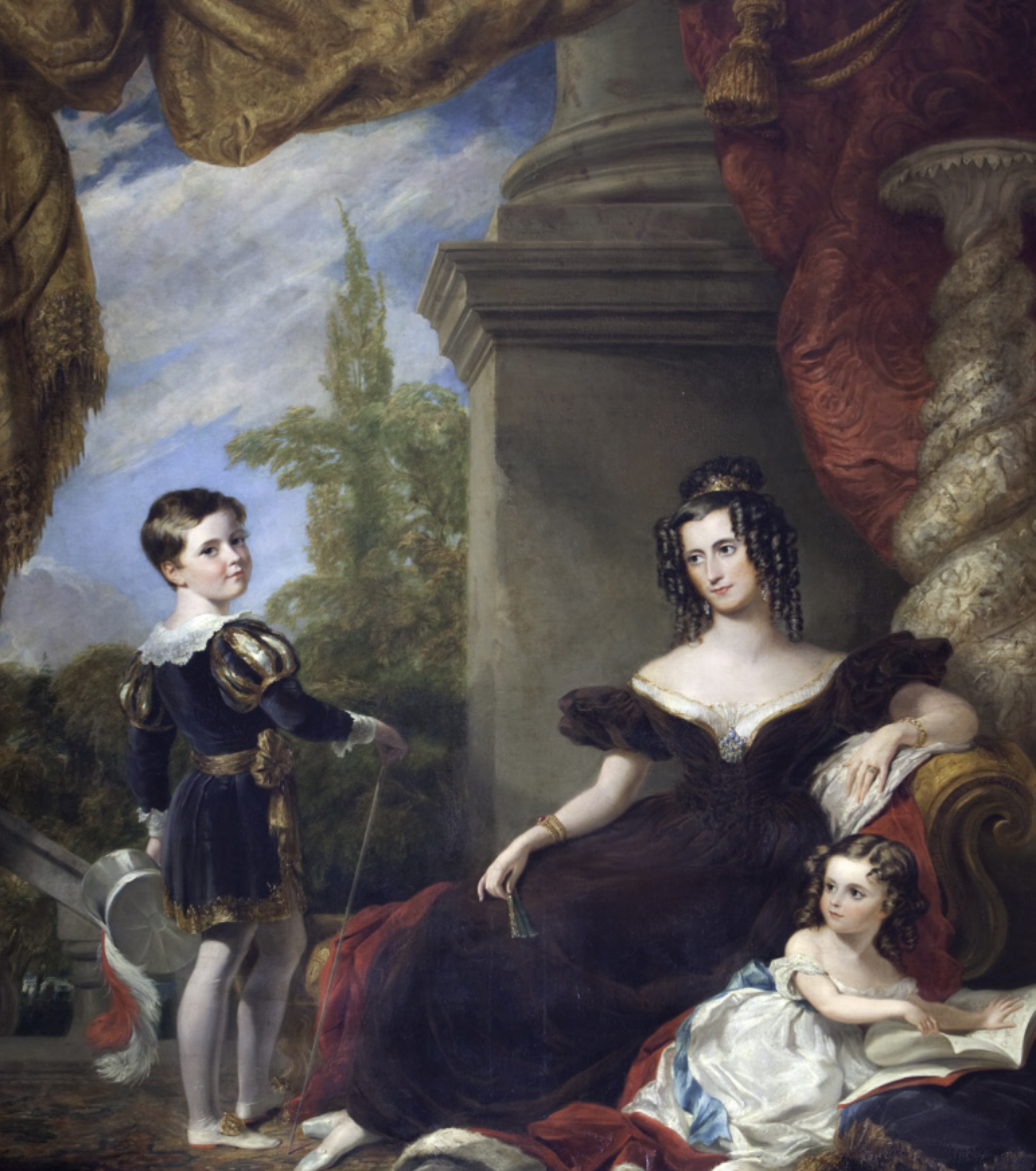 Louisa Barbara Catherine Philips, Countess of Lichfield (c.1800-1879) with two of her Children, Thomas George Anson, 2nd Earl of Lichfield MP (1825-1892) and Lady Harriet Frances Maria Anson, Lady Vernon (1827-1898) by Sir George Hayter painted in 1832